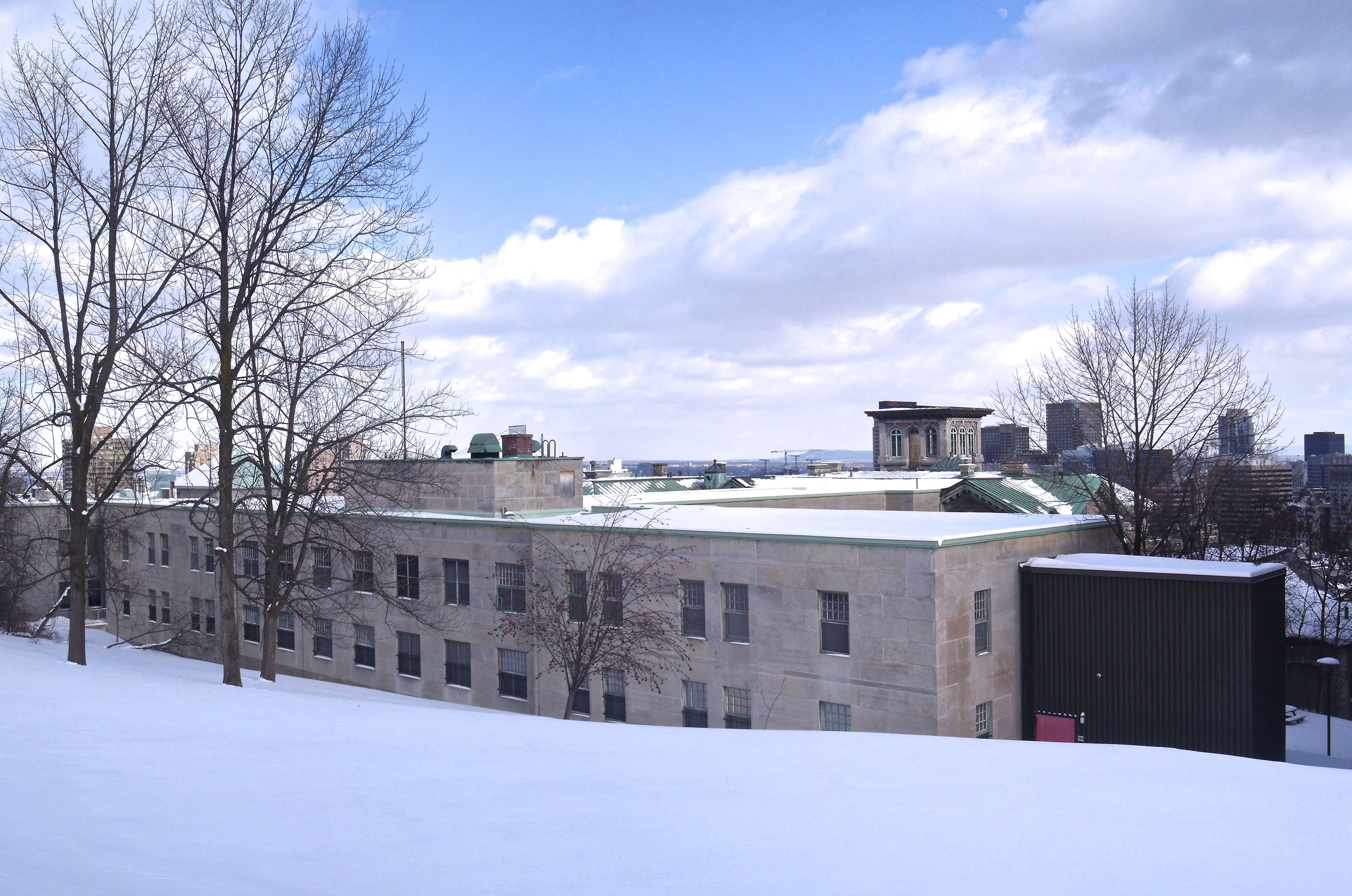 Allan Memorial Institute, 1025 Pine Avenue West, Montreal, Quebec, Canada.